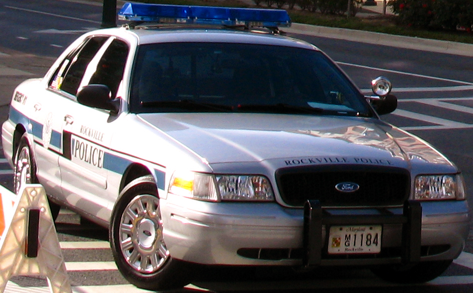 2009 10 10 - 0085 - Rockville - Maryland Ave at Middle La, Location: Rockville